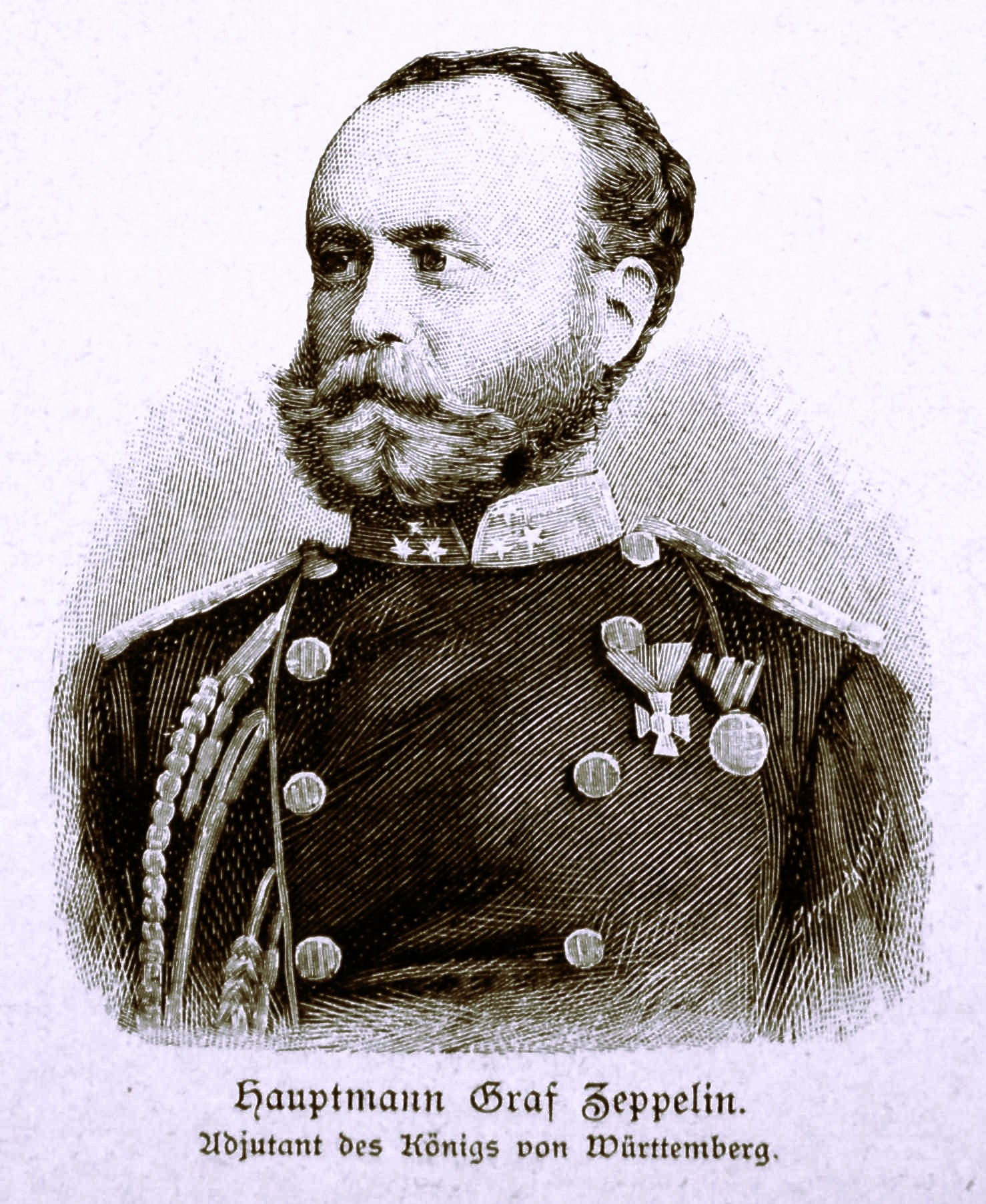 captain earl Zeppelin